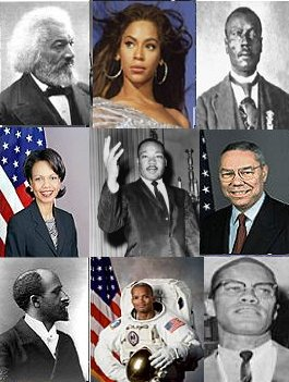 These are 9 different works that are under a free license that I modified